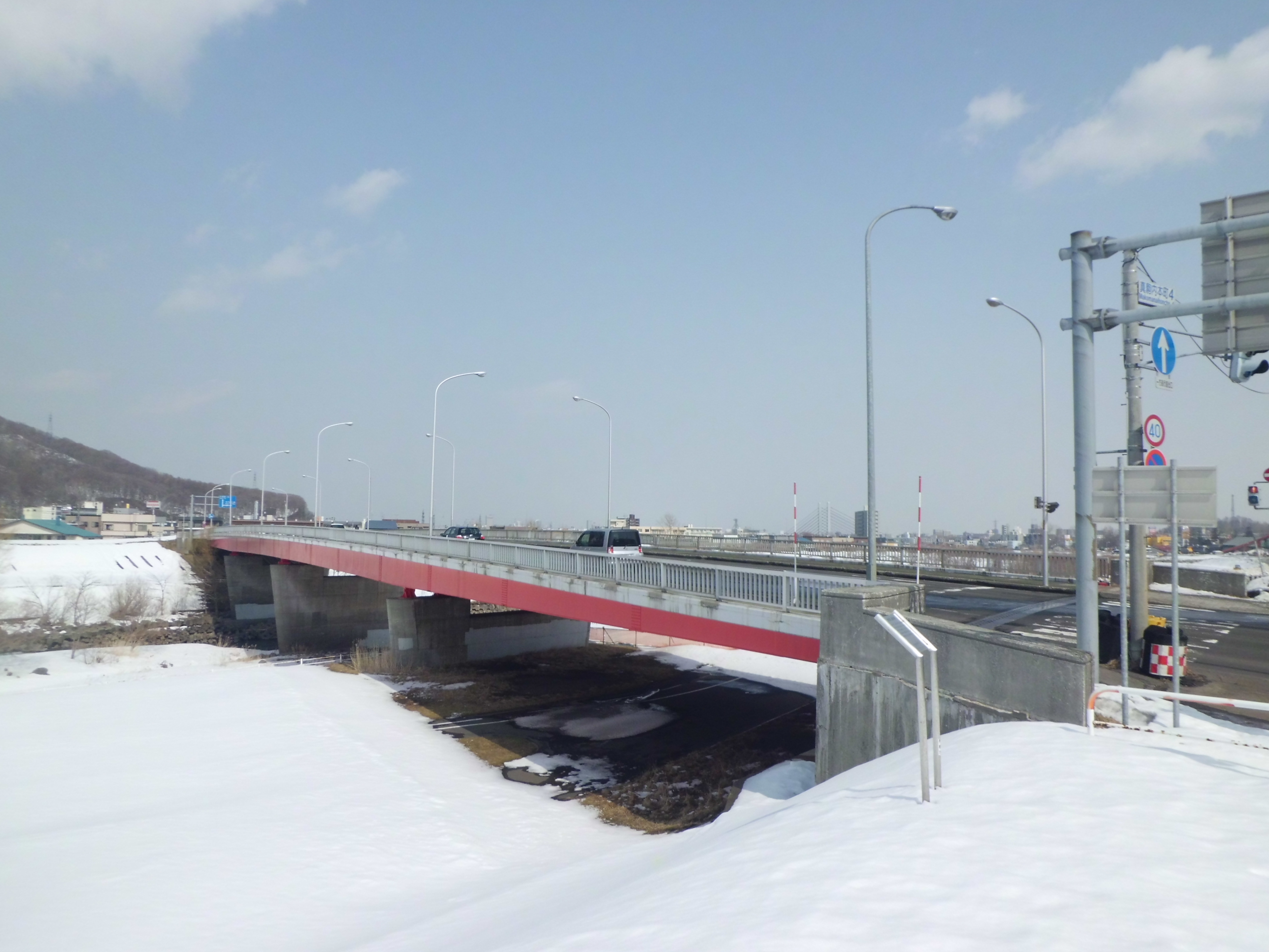 Moiwa Bridge on Toyohira River. Looking the downstream direction from the southern bank.